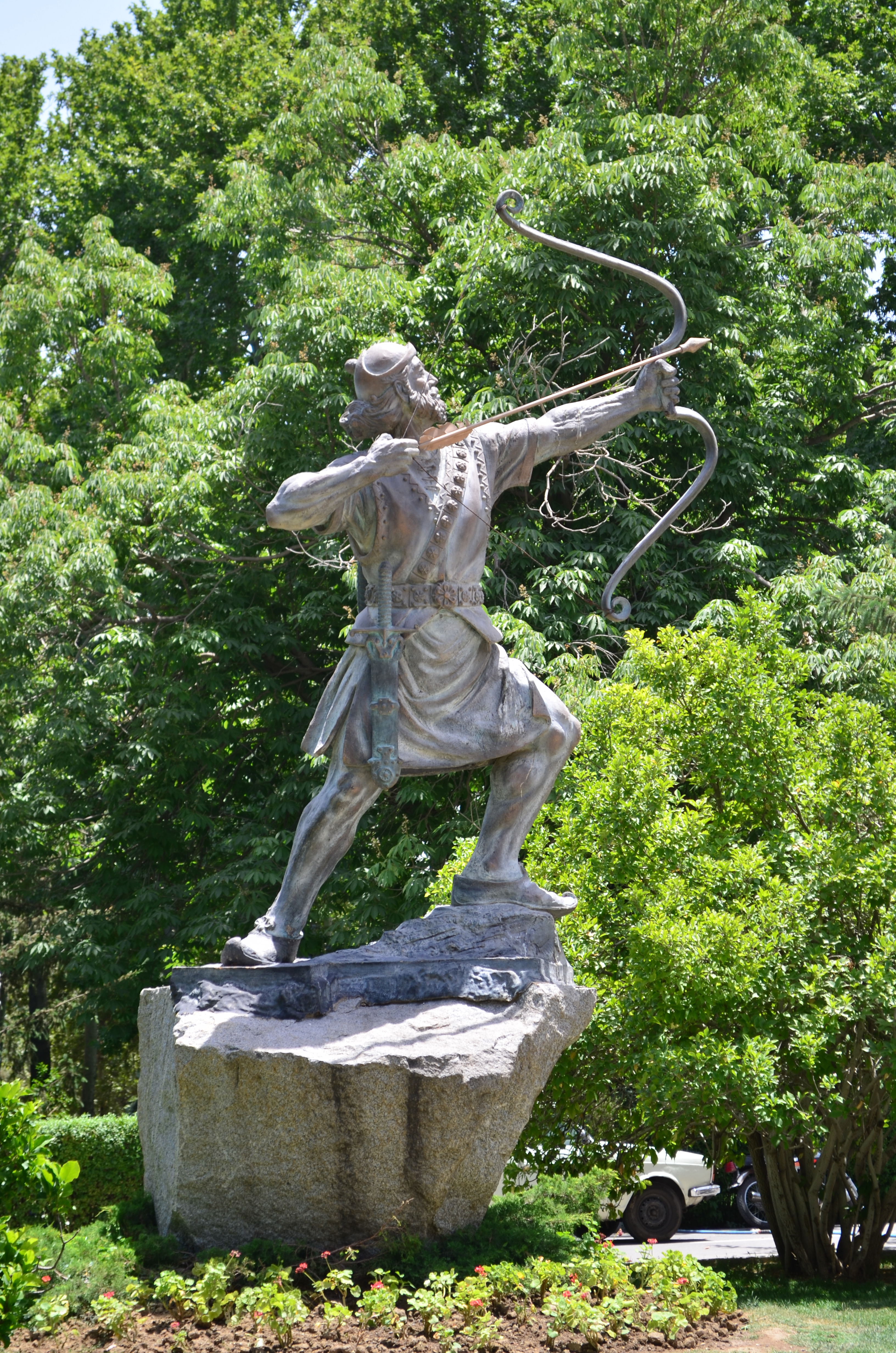 Statue of Arash the Archer at the Sa'dabad Complex — in Tehran, Iran.